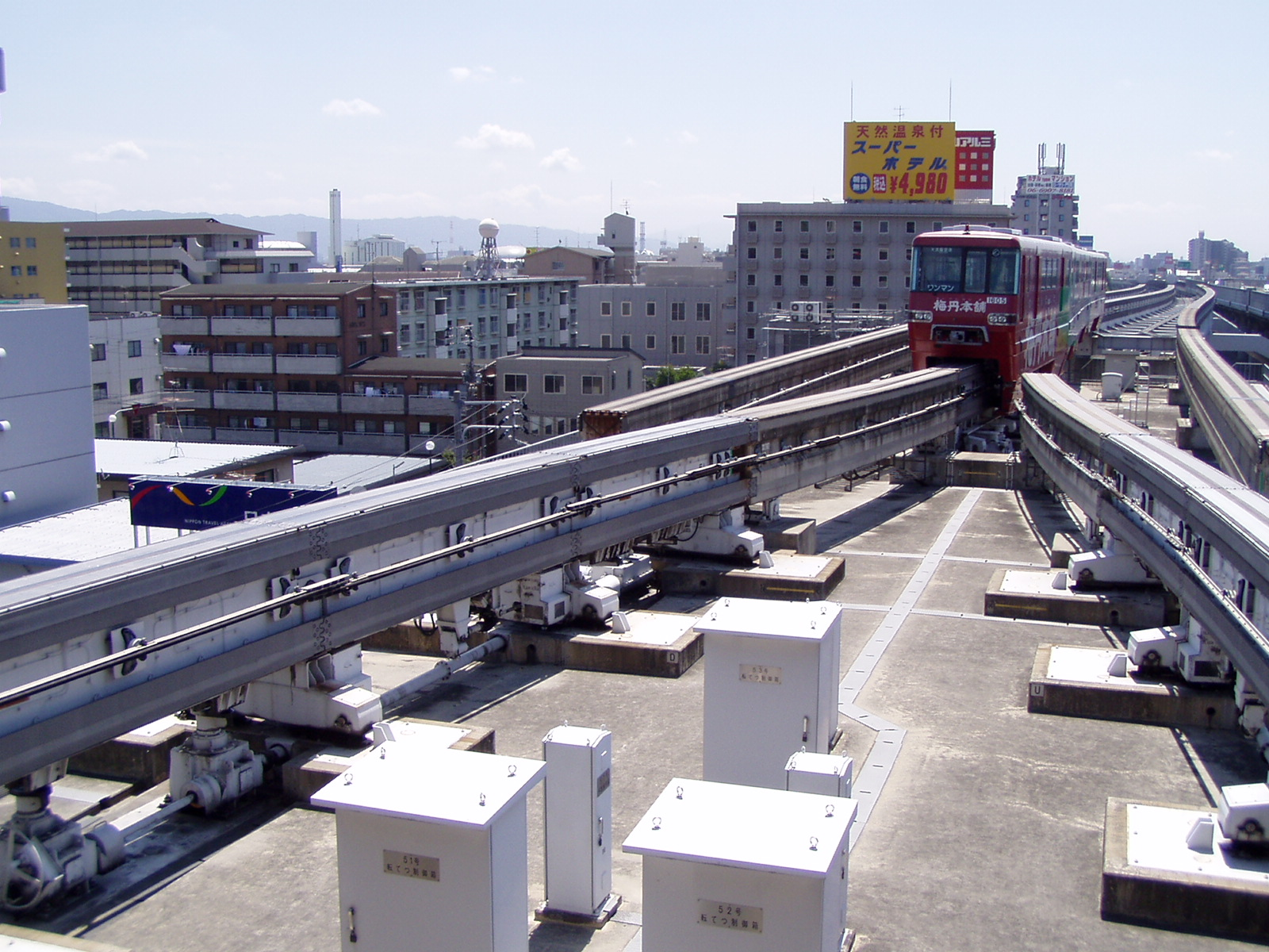 Kadoma. Points at Kadomashi station of Osaka Monorail.